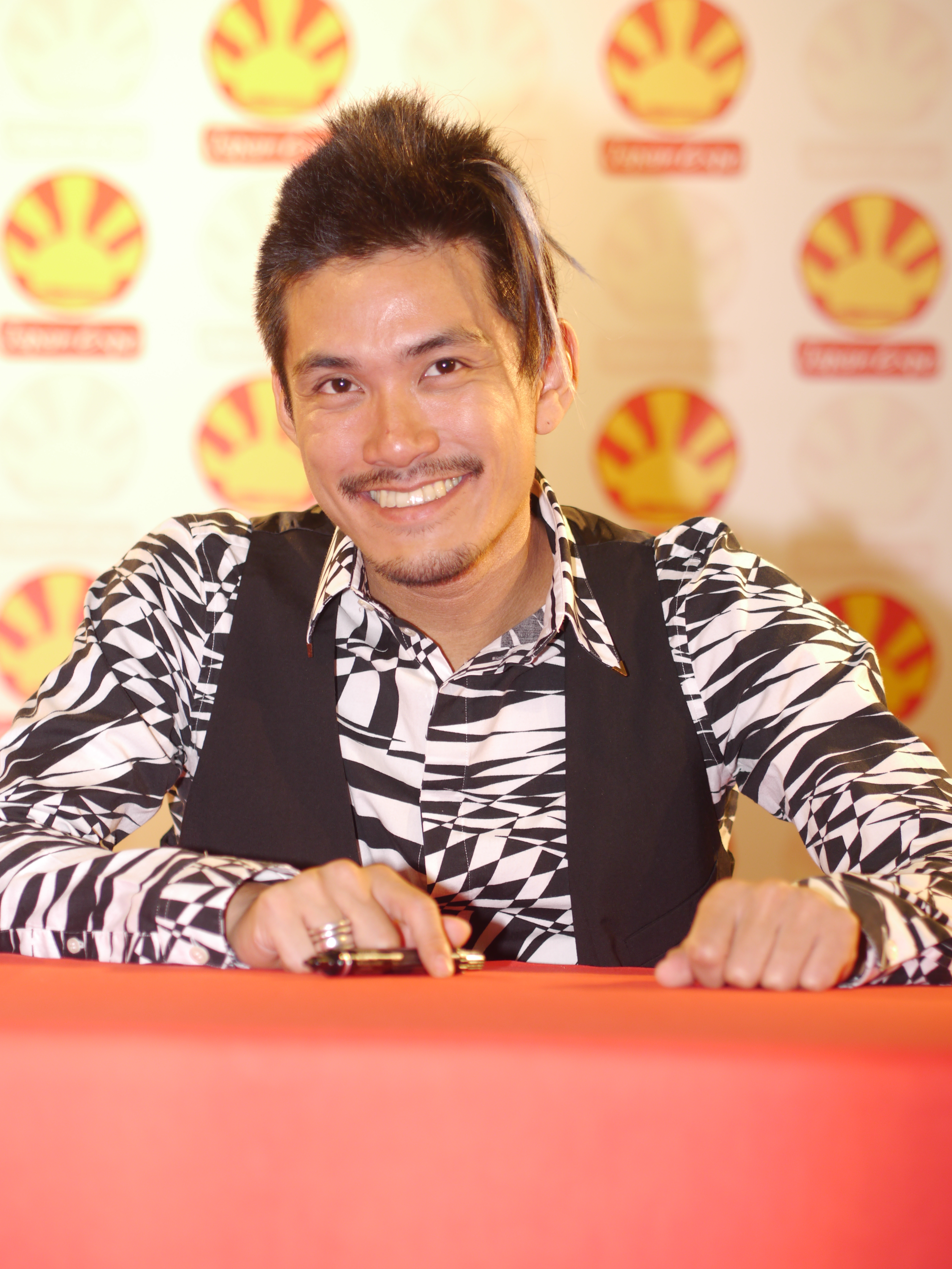 Japan Expo Festival, 13th impact